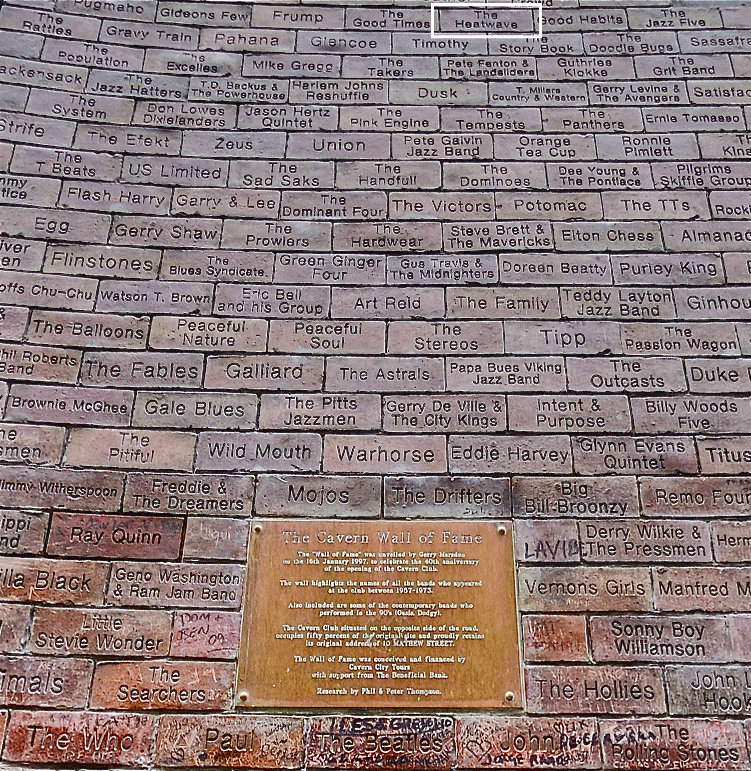 Heatwave brick in The Cavern Club Wall Of Fame. The Cavern Wall of Fame The "Wall of Fame" was unveiled by Gerry Marsden on the 16th January 1997, to celebrate the 40th anniversary of the opening of the Cavern Club. The wall highlights the names of all the bands who appeared at the club between 1957-1973. Also included are some of the contemporary bands who performed in the 90's (Oasis, Dodgy). The Cavern Club situated on the opposite side of the road, occupies fifty percent of the original site and proudly retains its original address of 10 MATHEW STREET. The Wall of Fame was conceived and financed by Cavern City Tours with support from The Beneficial Bank. Research by Phil & Peter Thompson. (quoted from description on the wall)